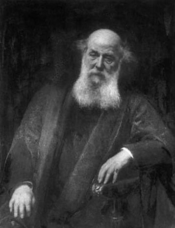 A portrait of the mathematician James Joseph Sylvester by the artist Alfred Edward Emslie (died 1918)